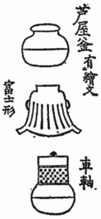 Kansu (鑵子, Teakettle of Japan of Edo period) from the Wakan Sansai Zue (和漢三才図会)